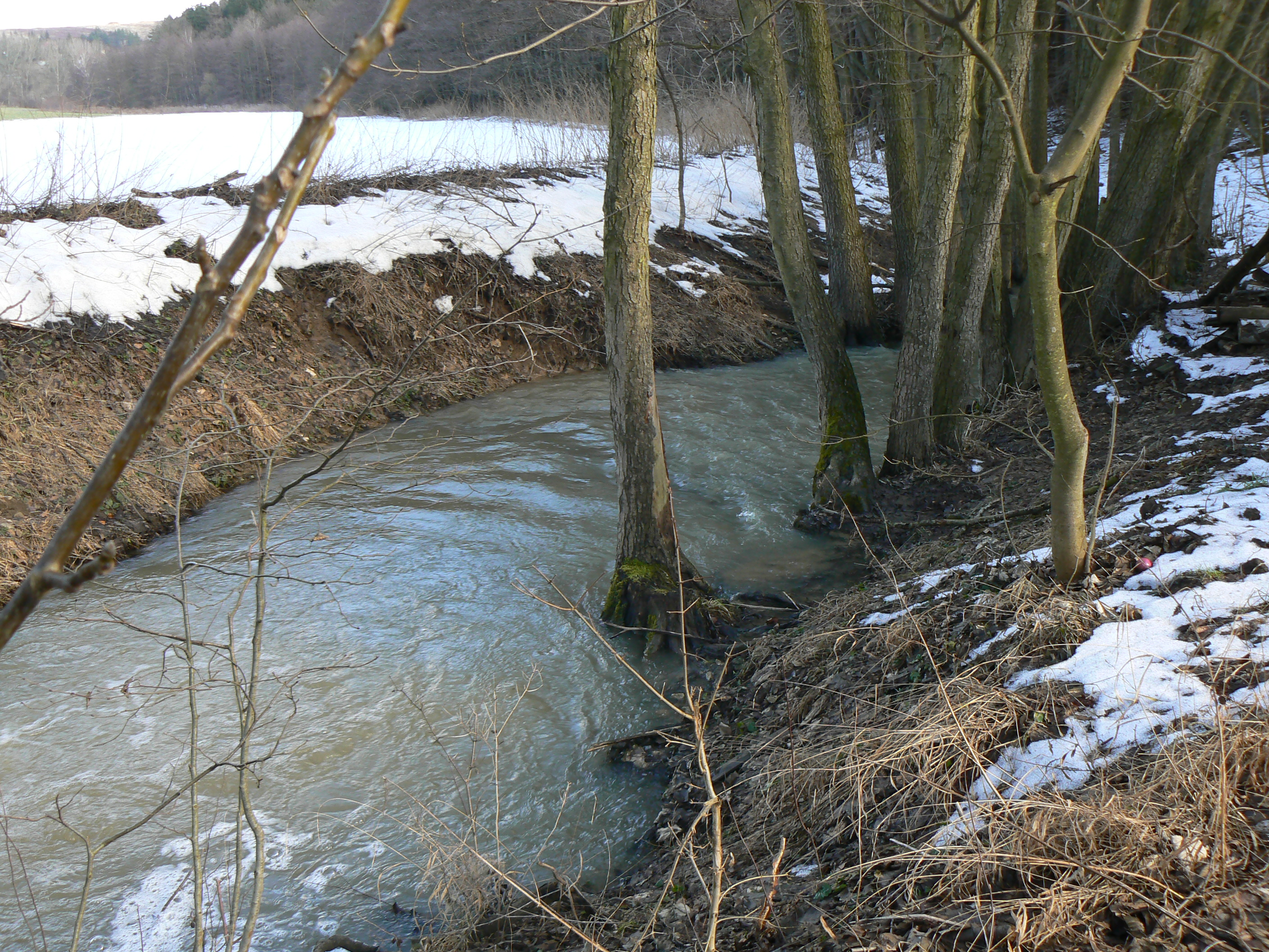 The stream Dlouhá řeka near Smraďavka